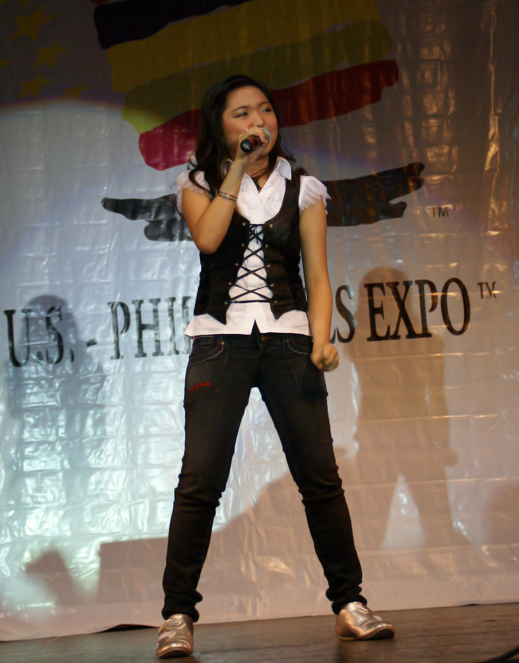 Charice Pempengco sings at US Philippine expo @ Pomona, CA